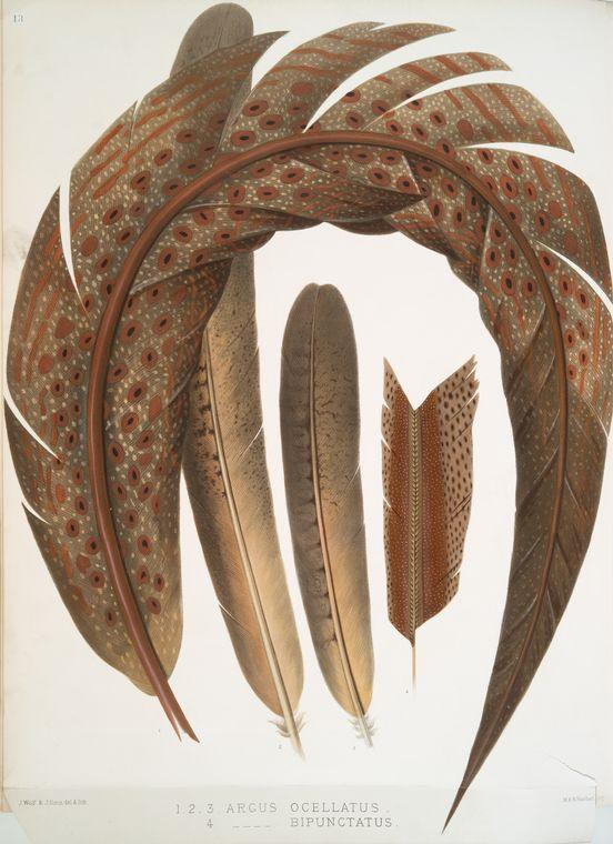 Illustration showing Argus ocellatus & Argus bipunctatus (fourth feather) From A monograph of the Phasianidae, or, Family of the pheasants By Daniel Giraud Elliot (1835-1915)